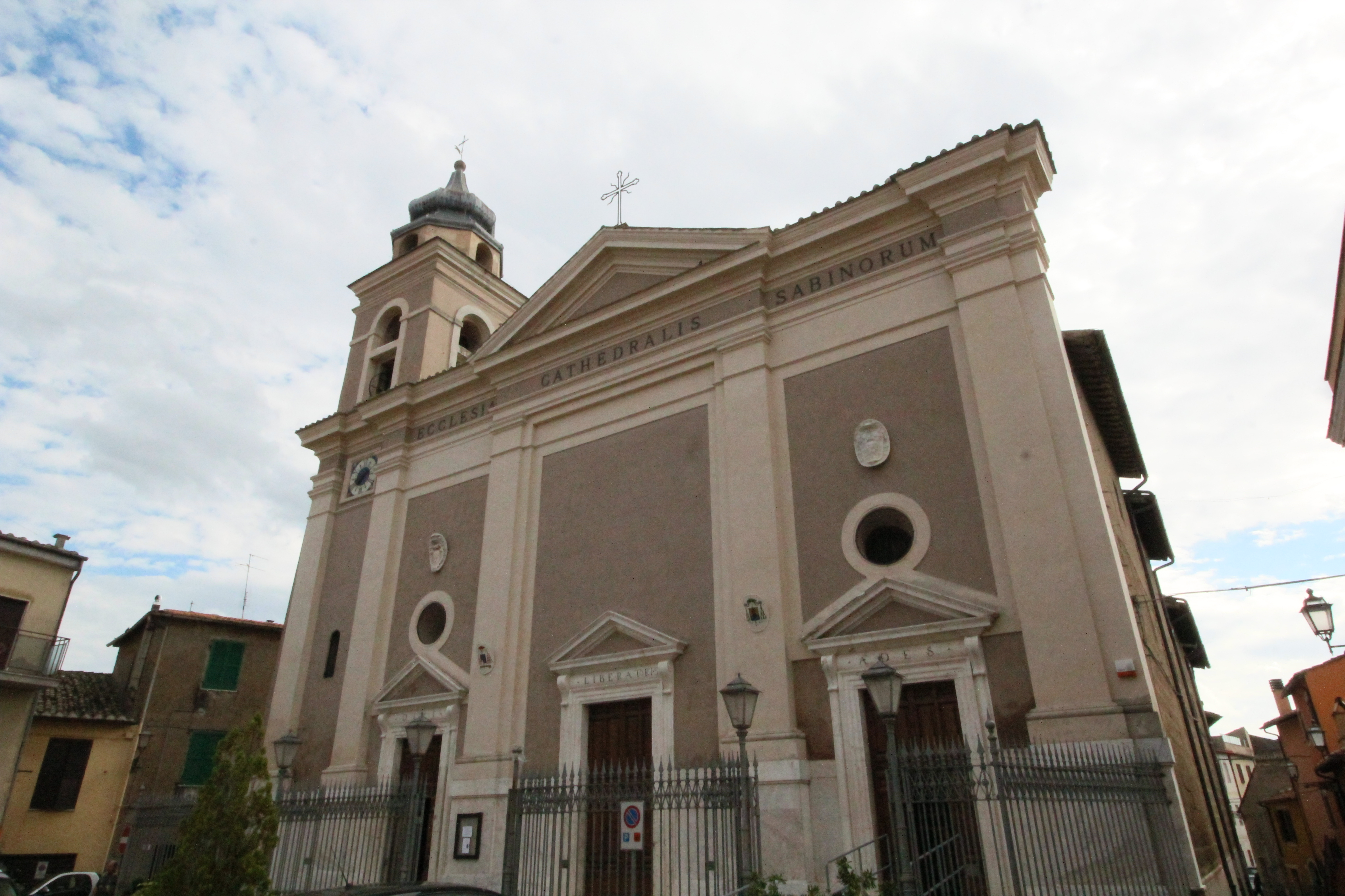 Cathedral Duomo San Liberatore (Cattedrale Dei Sabini) in the city center of Magliano Sabina, Province of Rieti, Lazio (Latium), Italy